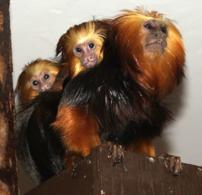 Goldkopfloewenaeffchen (Leontopithecus chrysomelas)